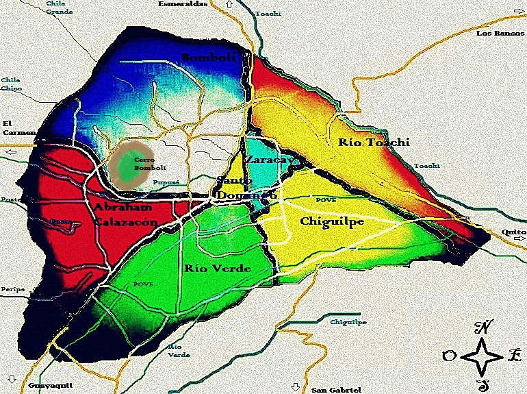 Urban districts of Santo Domingo, Ecuador.